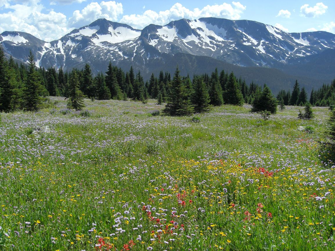 20090727 (photo #44) Table Mountain, Wells Gray Park, BC Not quite as impressive as the Trophy Mountain meadows, but these have the distinct advantage of being completely deserted. Fields of wandering daisy, arnica, paintbrush, heliotrope, etc. as far as you can see. Mmmmm.